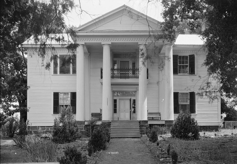 Alpine, County Road 46, Alpine, Talladega, AL. SOUTH FRONT ELEVATION.